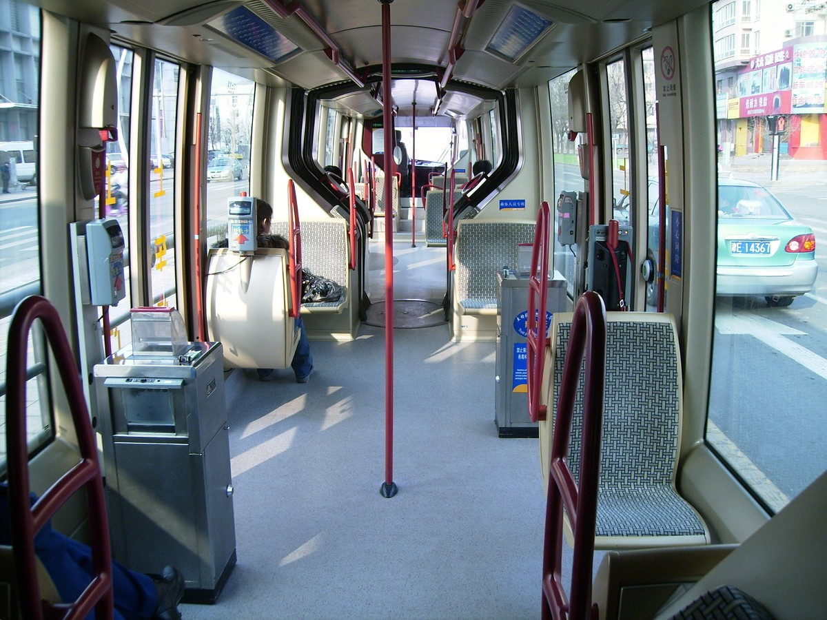 Interior of Translohr in Tanggu, Tianjin, China